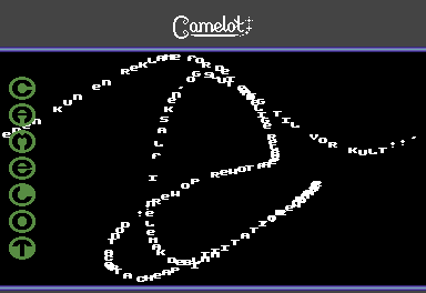 Screen shot from the C64 Demo "Camel Park"